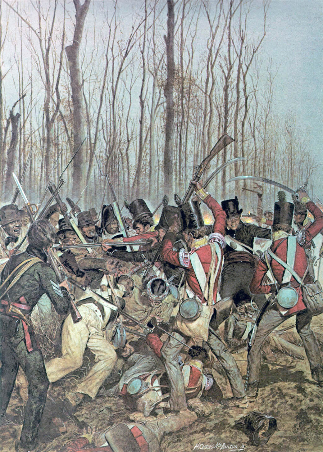 Battle of New Orleans. Night attack of December 23. The painting shows the Choctaws and a mixed group of Major Daquin's Battalion of Free Men of Colour. The latter were mostly attired in civilian clothes because they had been organized only for a few weeks. They are led by an officer distinguishable by his sword and red sash. Facing them are members of the British 85th Regiment in red coats with yellow facings and white lace, and members of the British 95th Regiment in green uniforms with black facings and white lace